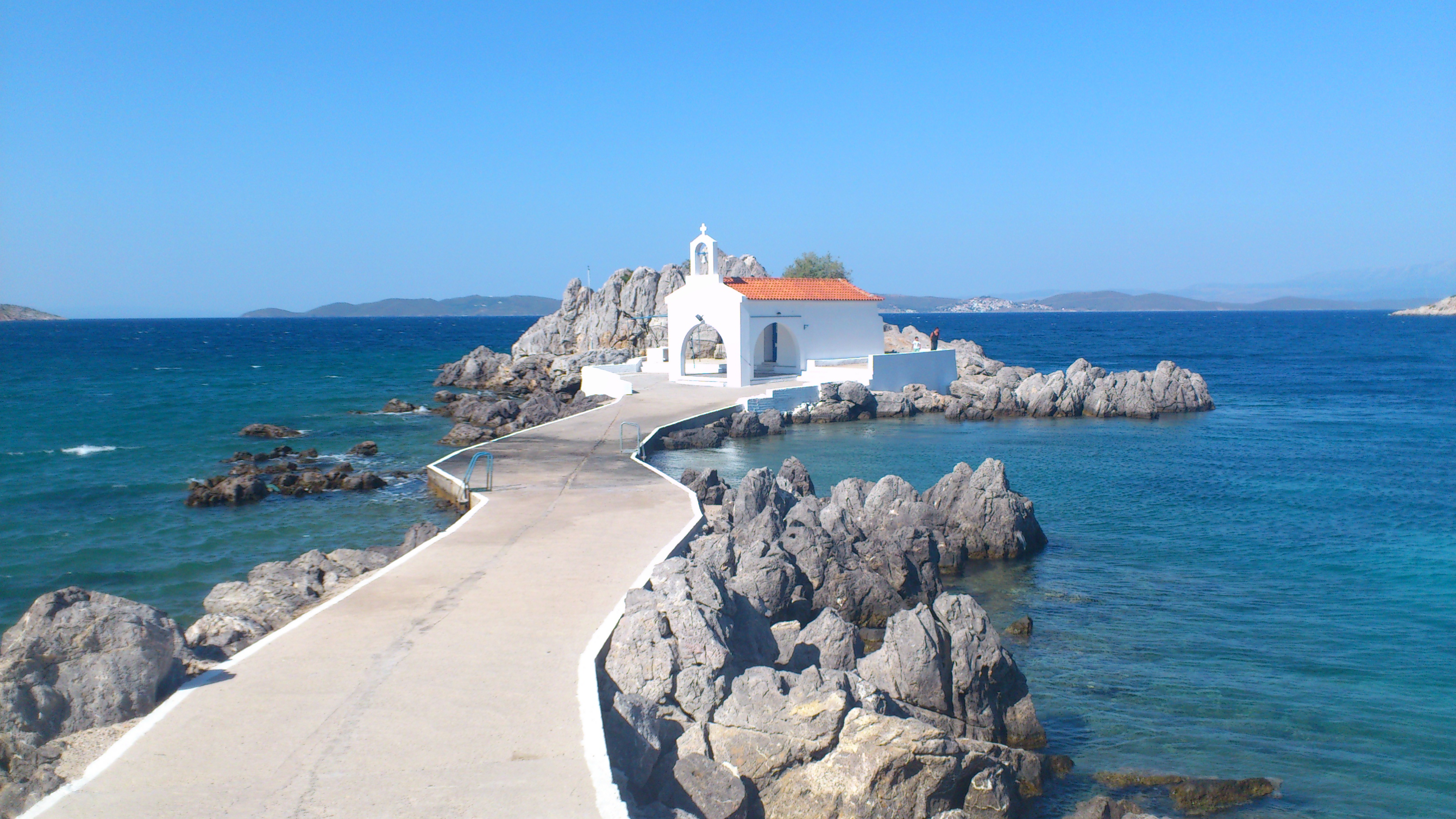 A beautiful image of island Chios, in Greece